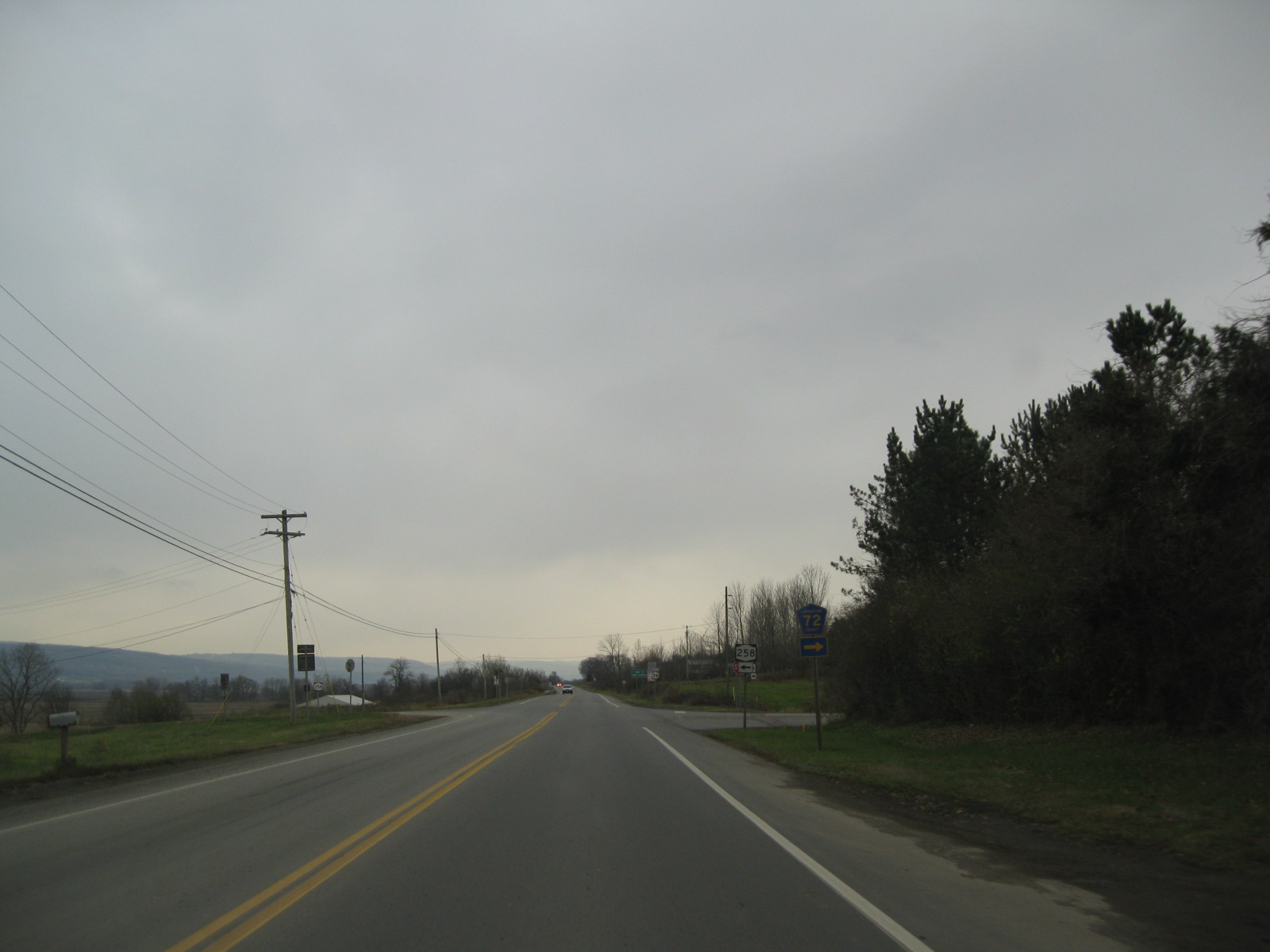 Southbound on New York State Route 36 at New York State Route 258 in an area of Livingston County known as the flats.